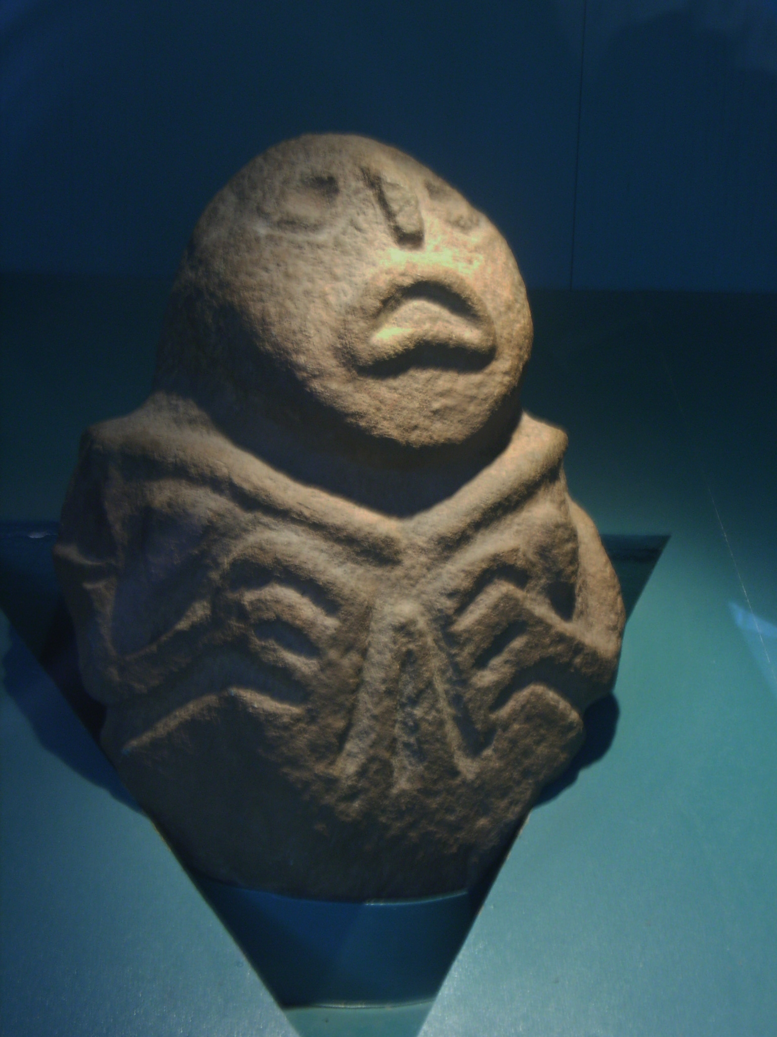 Scupture of a head, found at the archaeological site of Lepenski Vir in Serbia